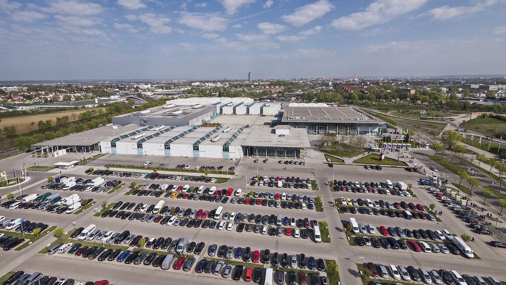 Fotoaufnahmen mit Octocopter am 12.04.2014, AFA 2014